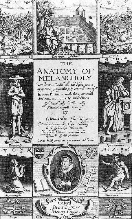 The frontispiece for the 1638 edition of Robert Burton's The Anatomy of Melancholy